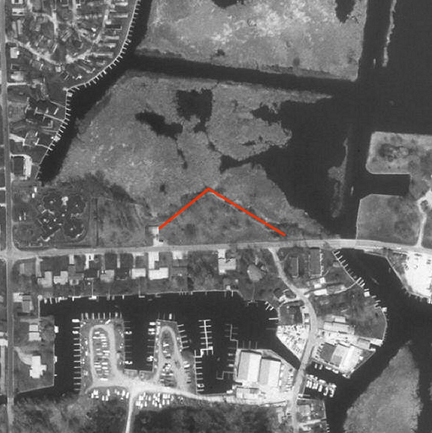 USGS orthophoto showing remnants of Dog Creek Dam. Uploader added reference point of red to show boundary of the fish trap on the north side. Noles1984 20:54, 26 August 2007 (UTC)